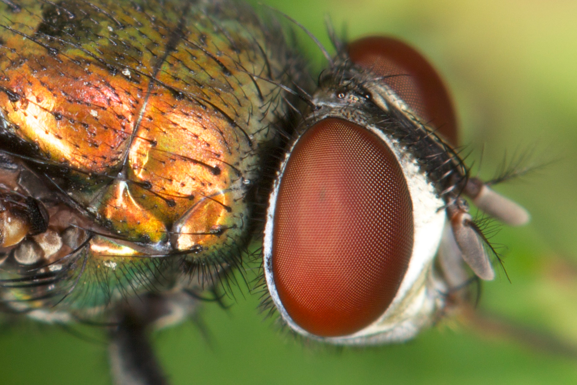 Australian sheep blow fly